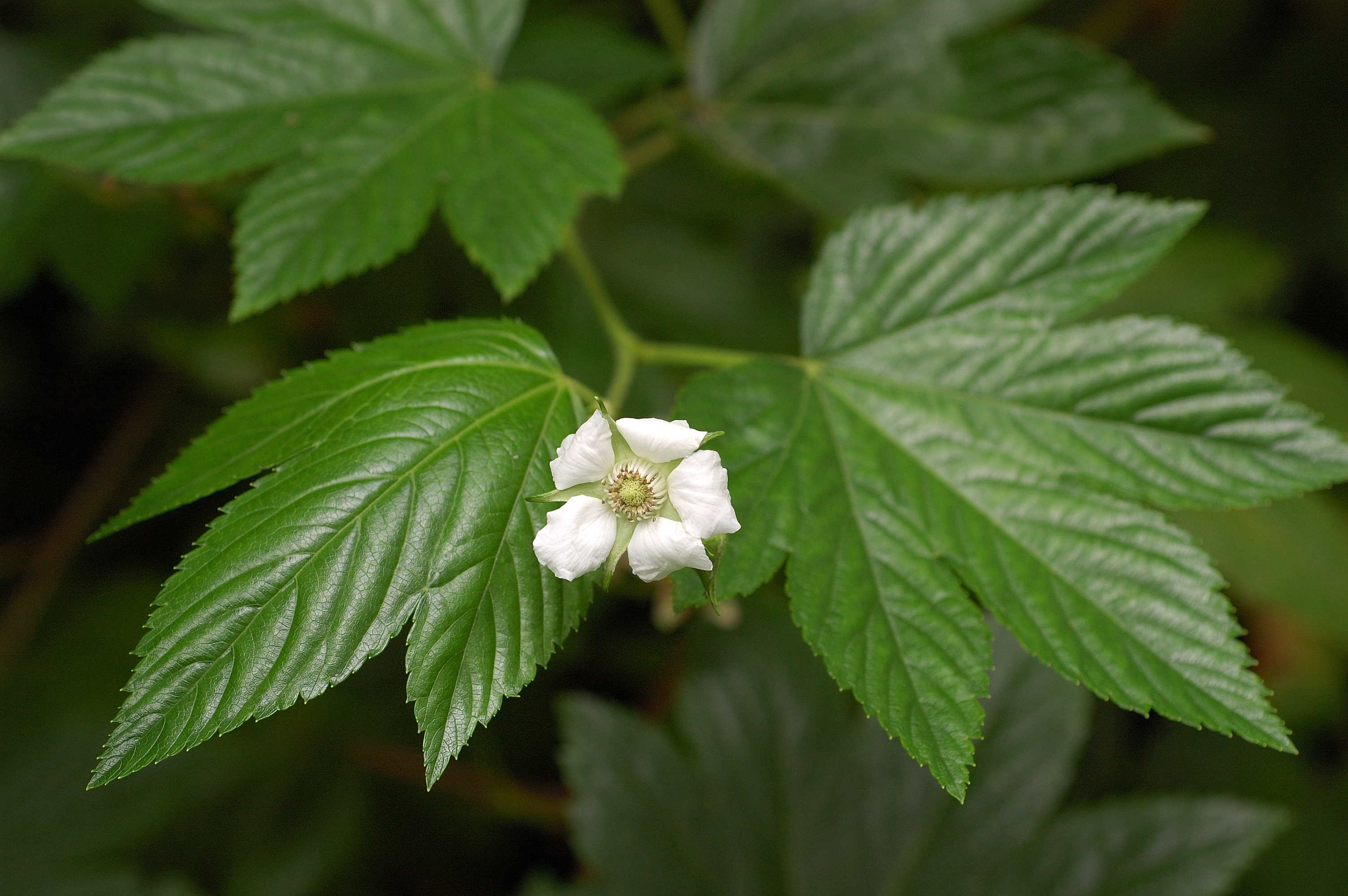 Rubus trifidus, photographed at The San Francisco Botanical Garden at Strybing Arboretum